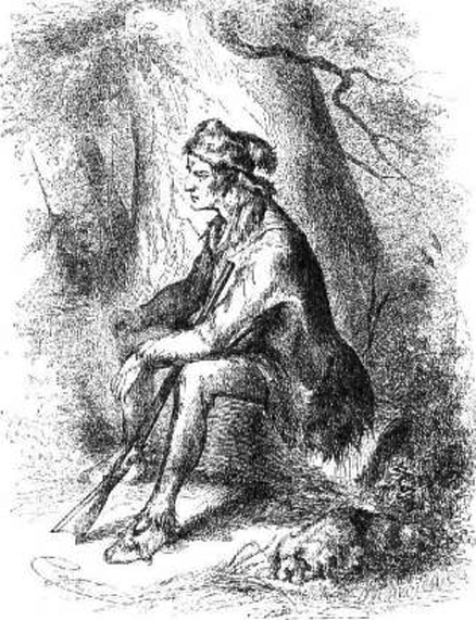 pen and ink illustration of Daniel Boone is from Daniel Boone and the Hunters of Kentucky (1854) by W. H. Bogart.